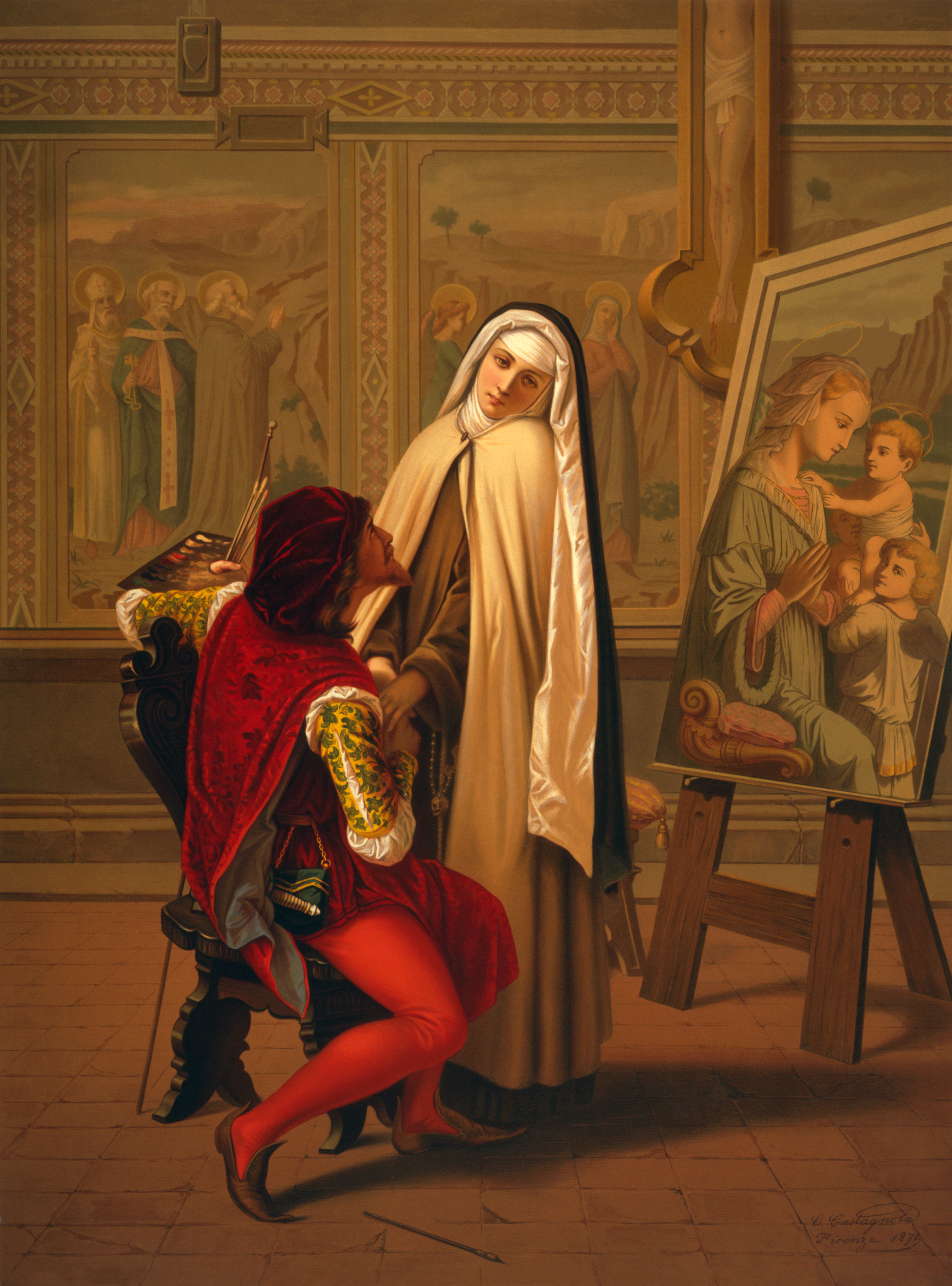 "Love or Duty" chromolithograph of a painter and a nun; published in Paris by Hangard-Mangué. His painting of a family is symbolic of what he offers her should she break her vows.